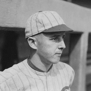 Chicago White Sox pitcher Lefty Williams in 1917